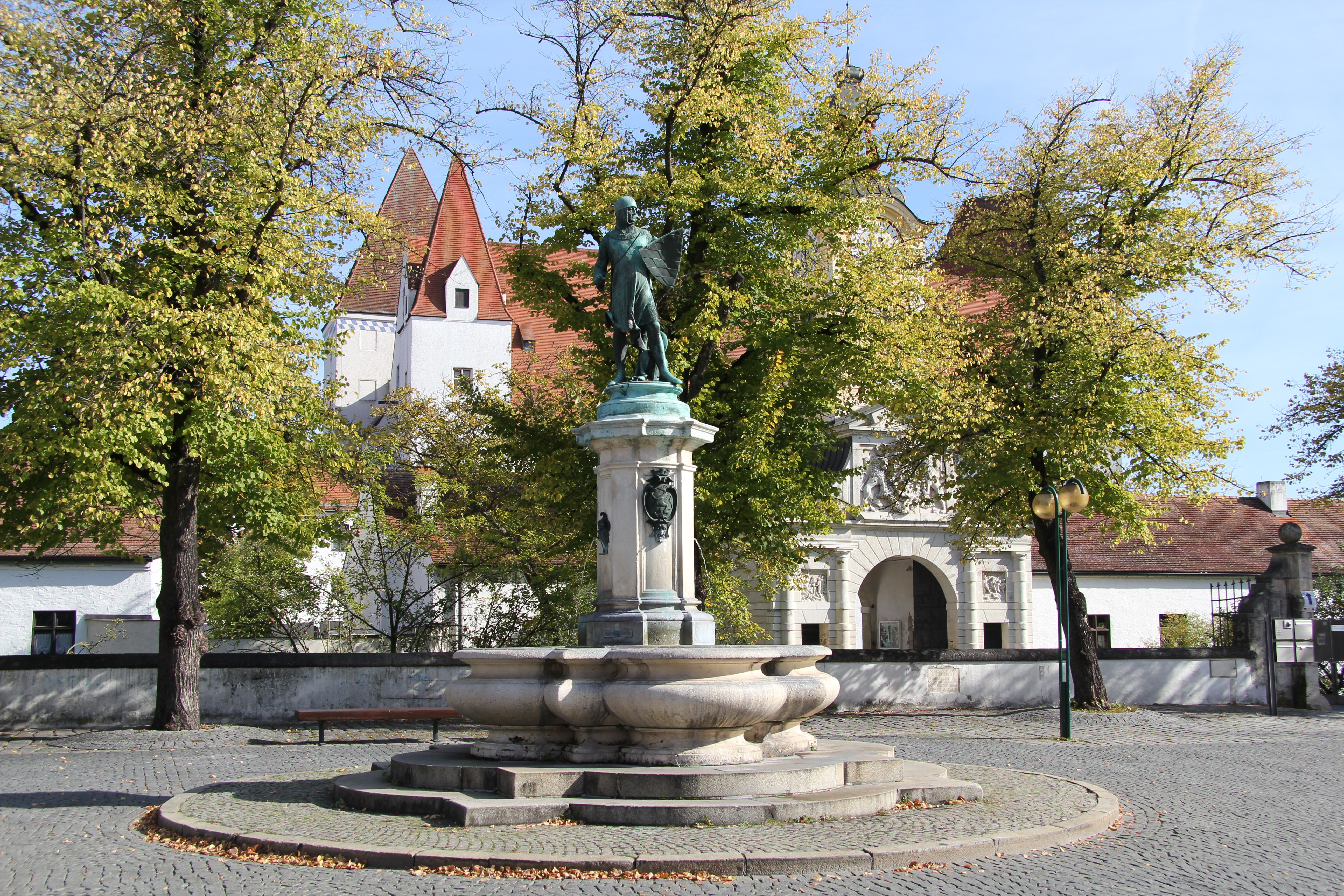 Ingolstadt, Ludwigsbrunnen (emperor Ludwig IV) at the Paradeplatz in front of the Neues Schloss